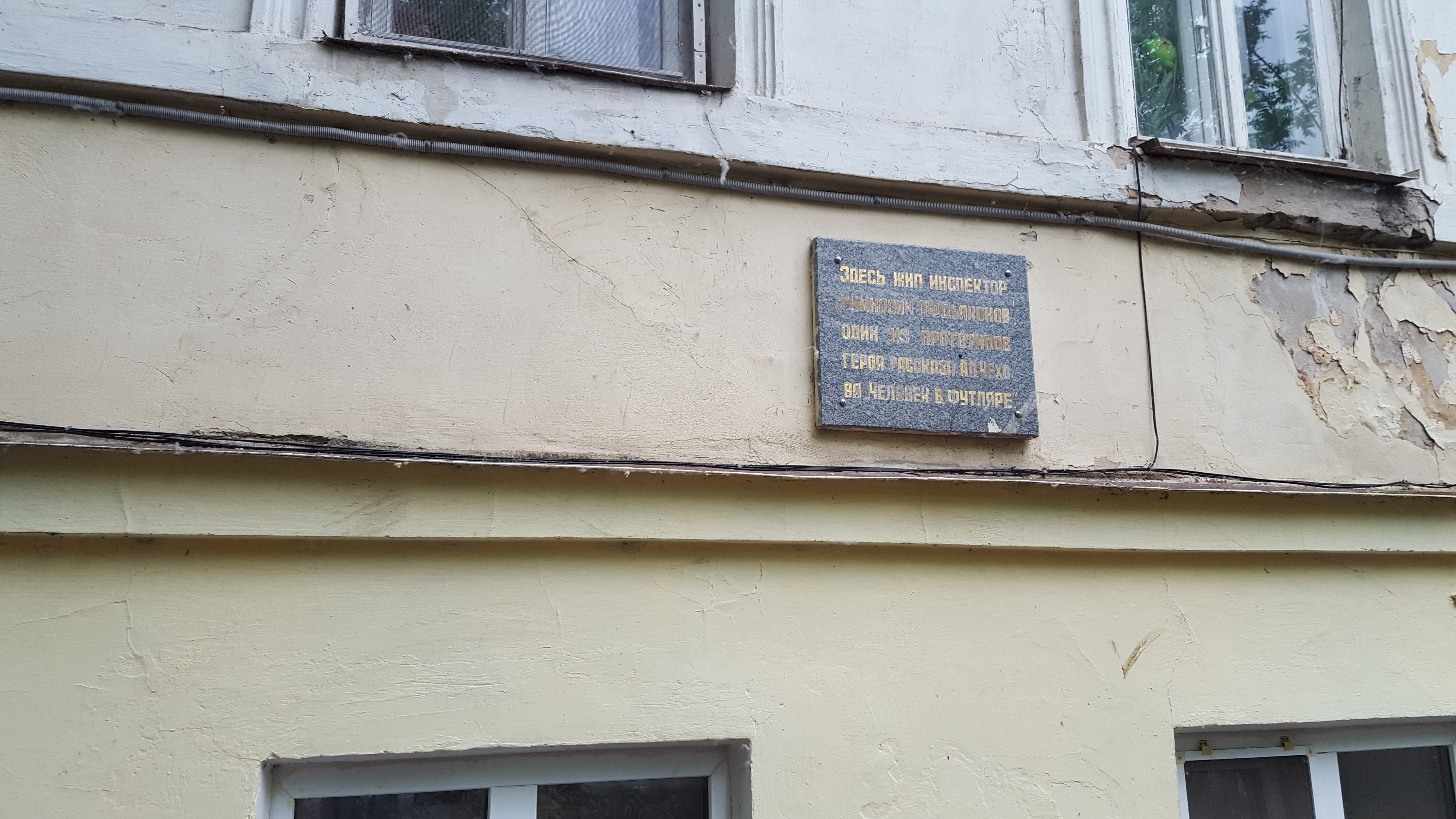 A memorial plaque dedicated to A. F. Dyakonov, one of the prototypes of the main character of Anton Chekhov's short story "The Man in the Case".